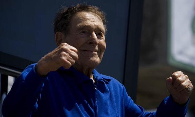 Jack LaLanne receives a Lifetime Achievement Award on September 3, 2007 during a ceremony at Muscle Beach in Venice Beach, California.